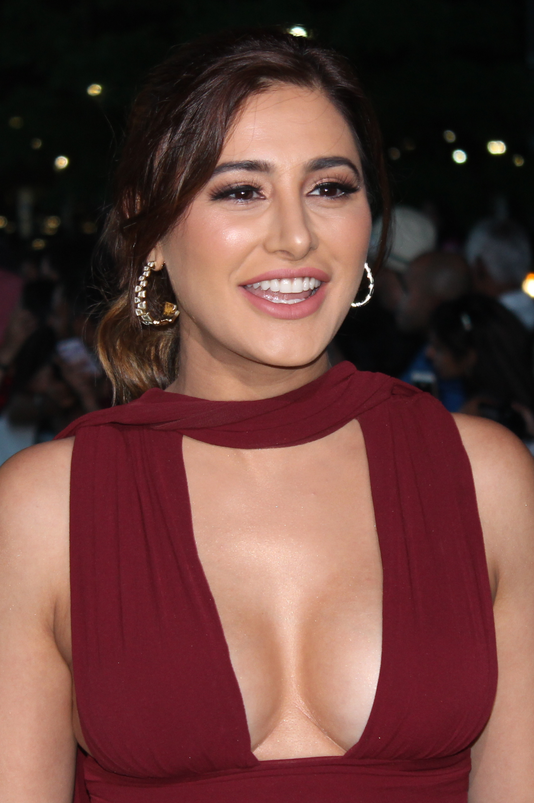 Nargis Fakhri. International Indian Film Academy awards Green Carpet (MetLife Stadium) in East Rutherford, New Jersey #IIFA2017 #IIFA